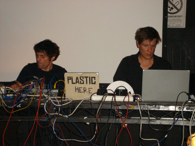 von sudenfed aka mouse on mars ,the arches Glasgow